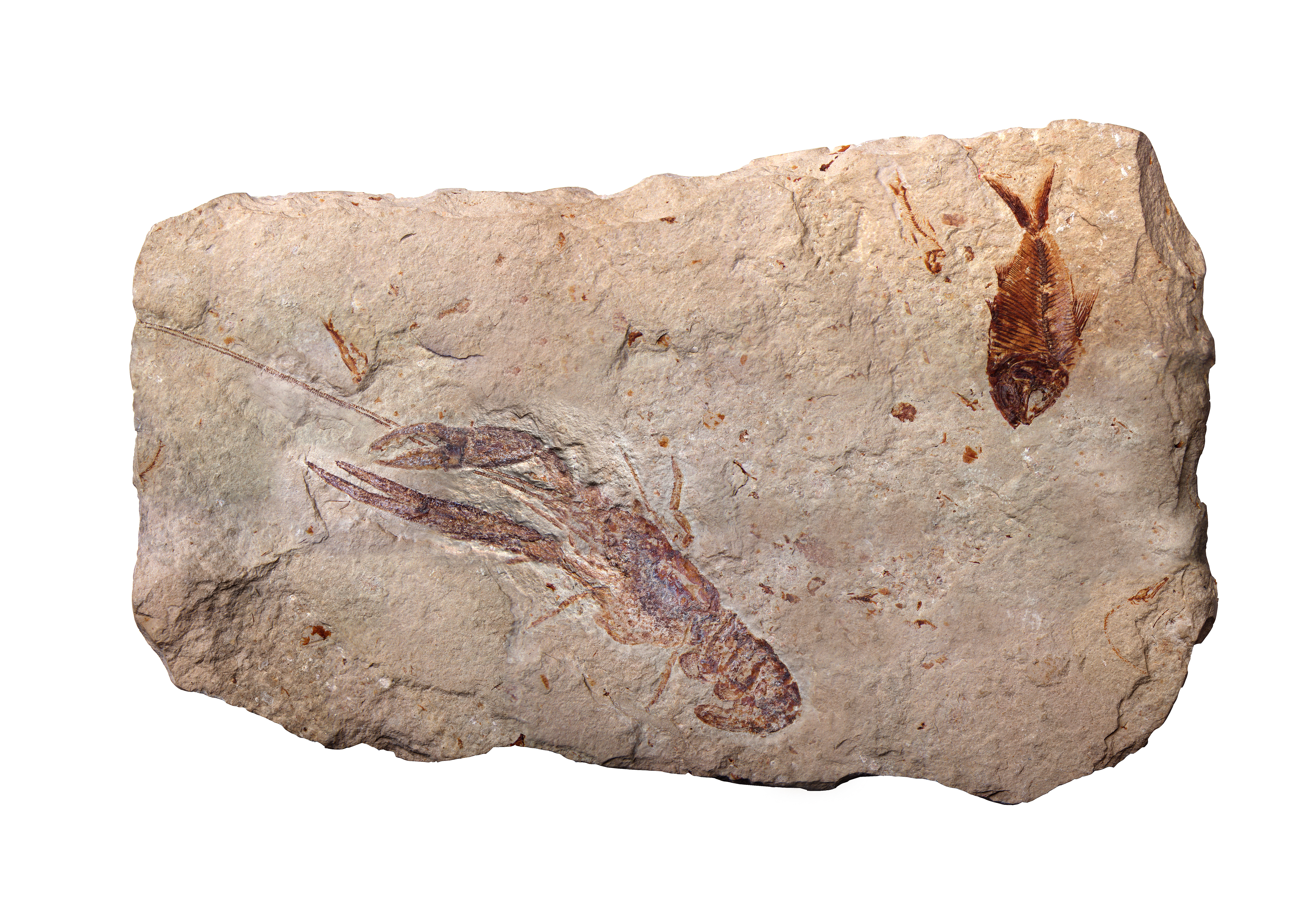 Fossil fish Diplomystus birdii, lobster Pseudostacus sp., and a partial Dercetis triqueter Stage: Middle Cretaceous, Cenomanian Stage (95 million years ago) Locality: Hakel, Lebanon. Dimension: 24 cm across